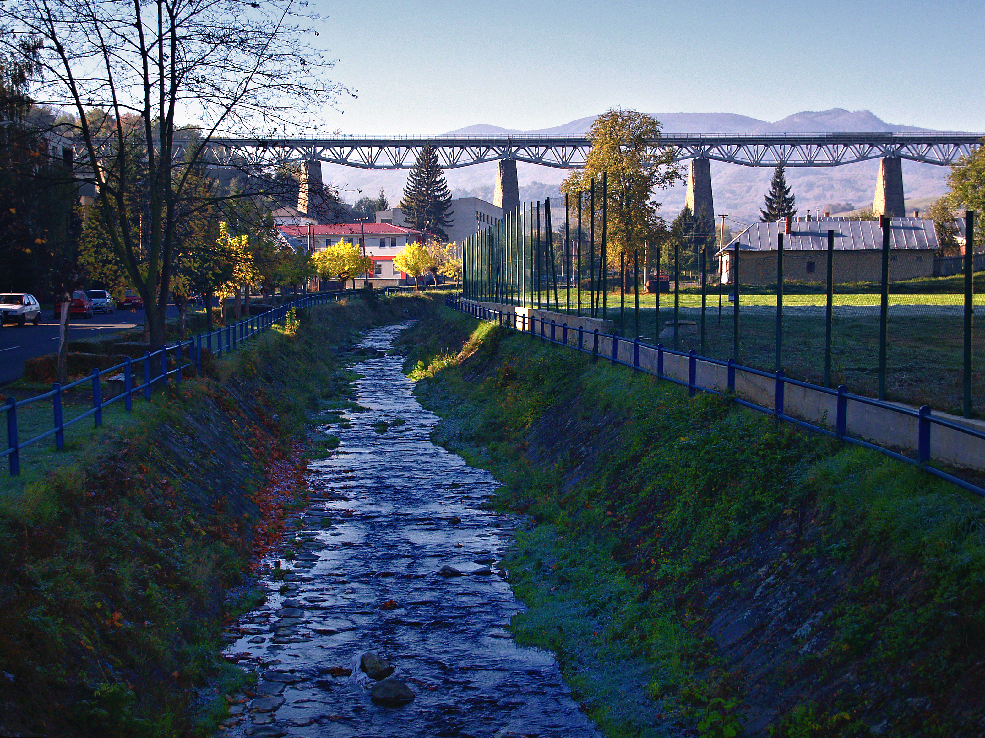 Hanušovce Nad Topl'ou - Pont ferroviaire